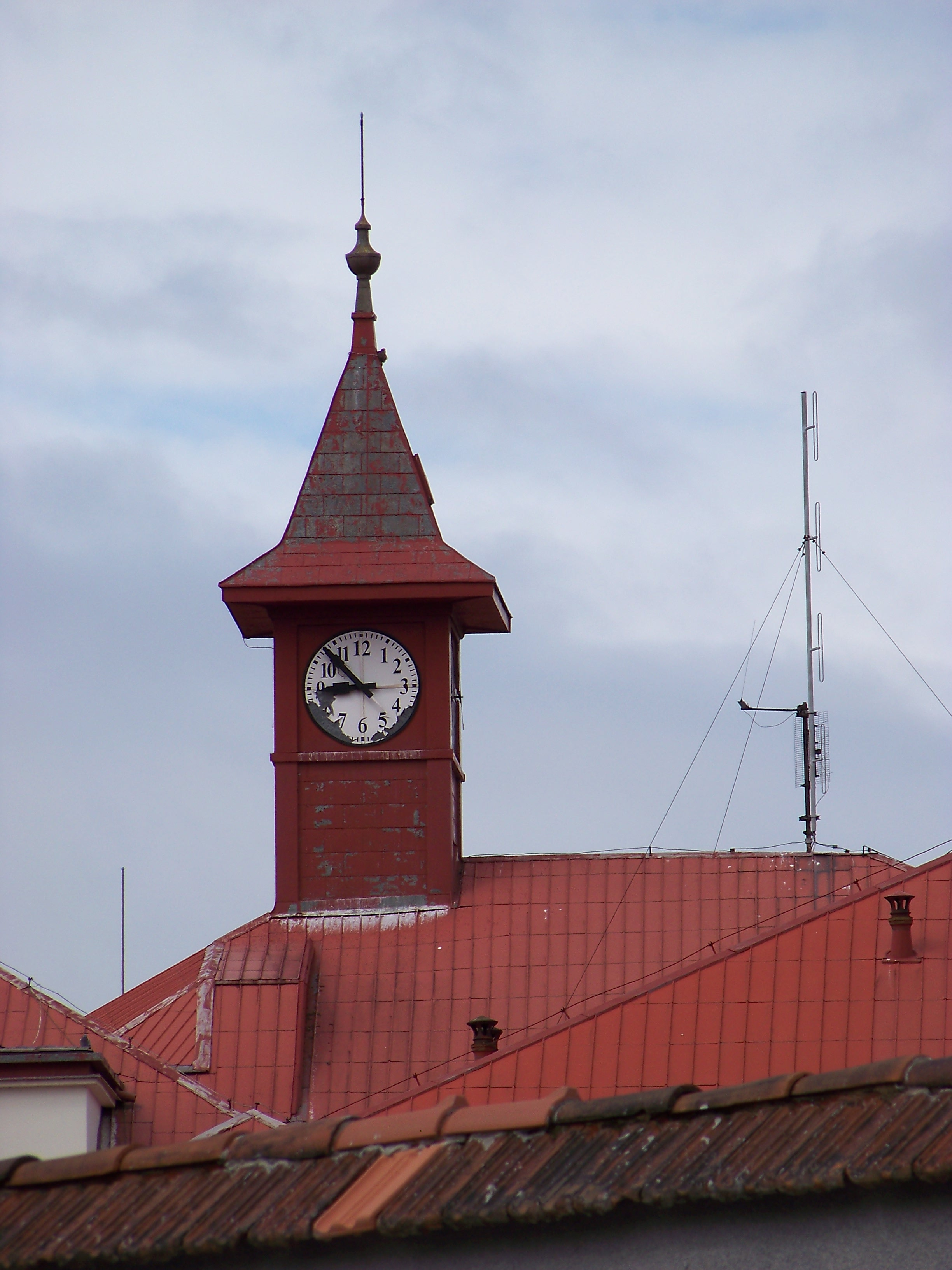 Prague-Nusle, the Czech Republic. A tower of the Pankrác prison.